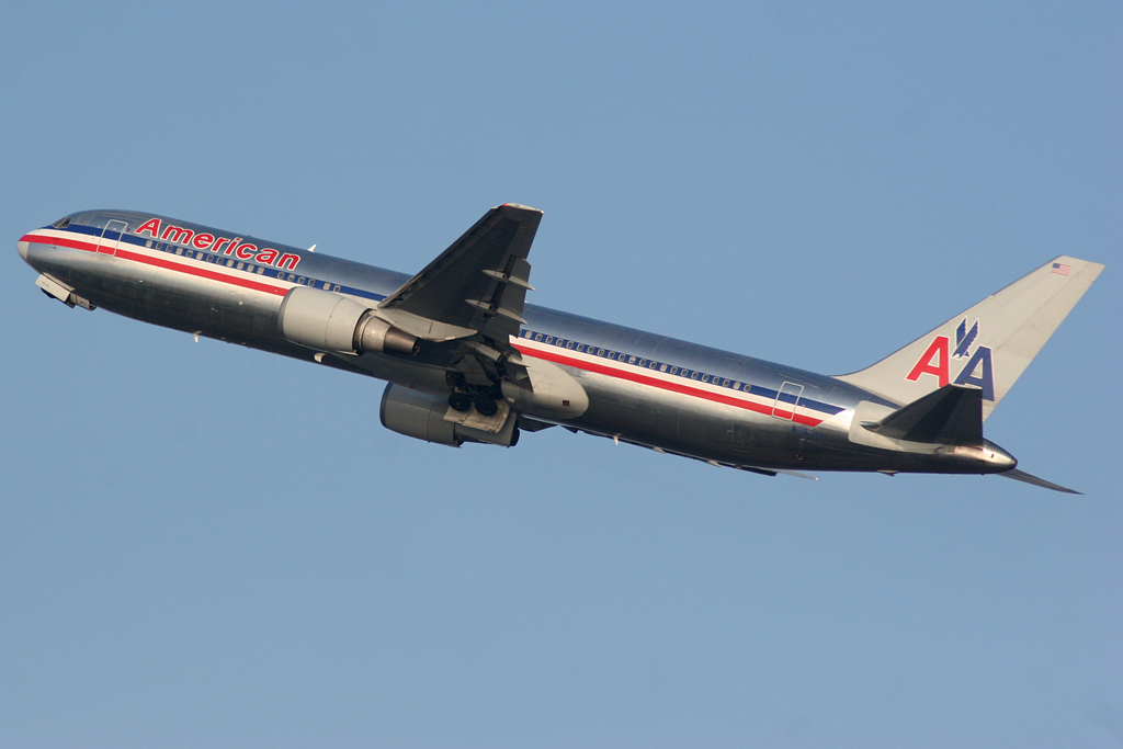 Boeing 767-323/ER American Airlines N357AA